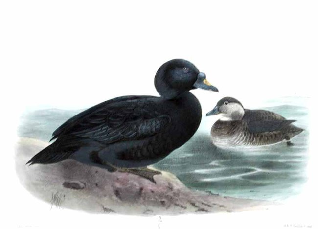 Melanitta nigra (Common Scoter)